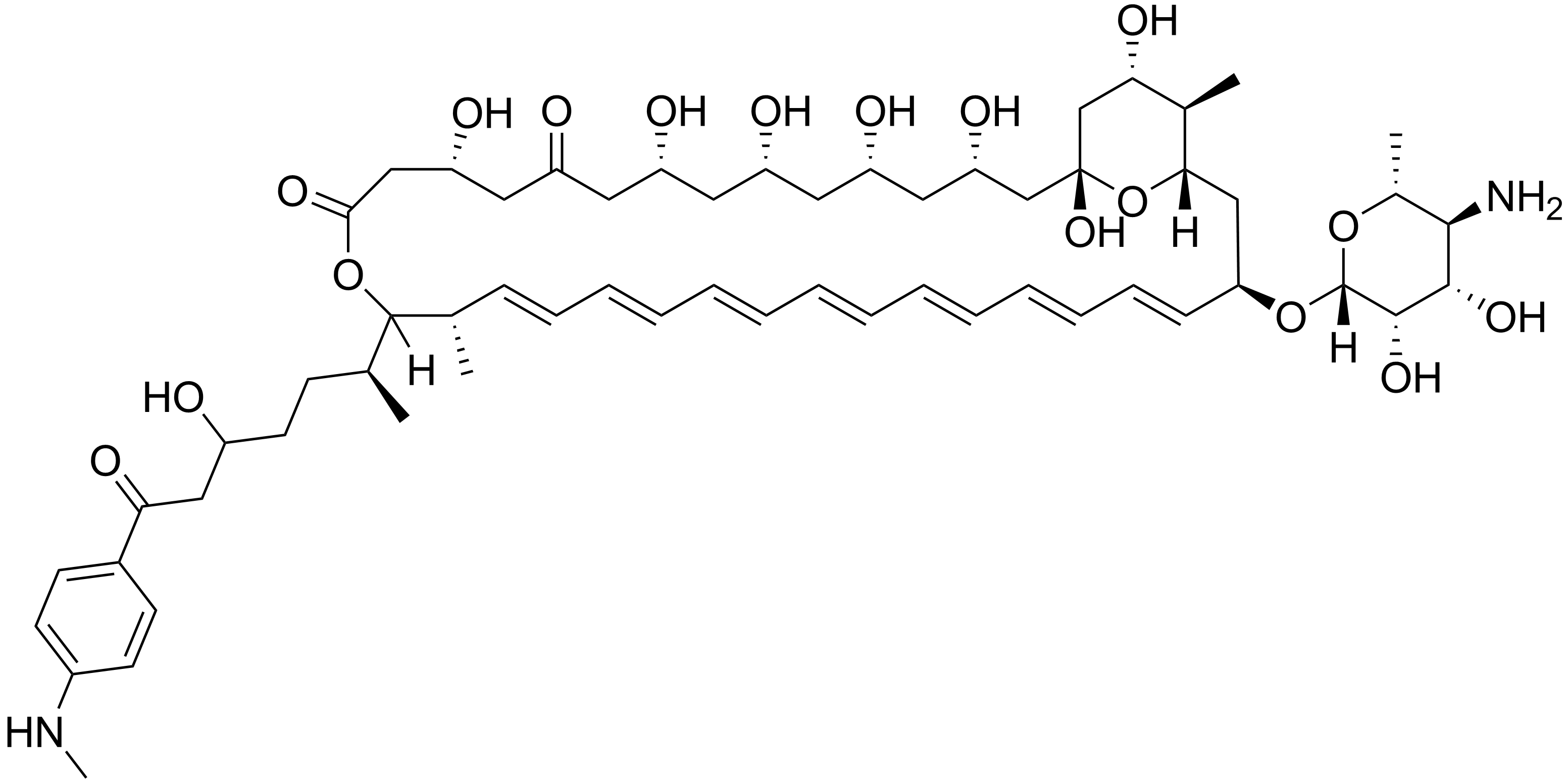 Chemical structure of perimycin A